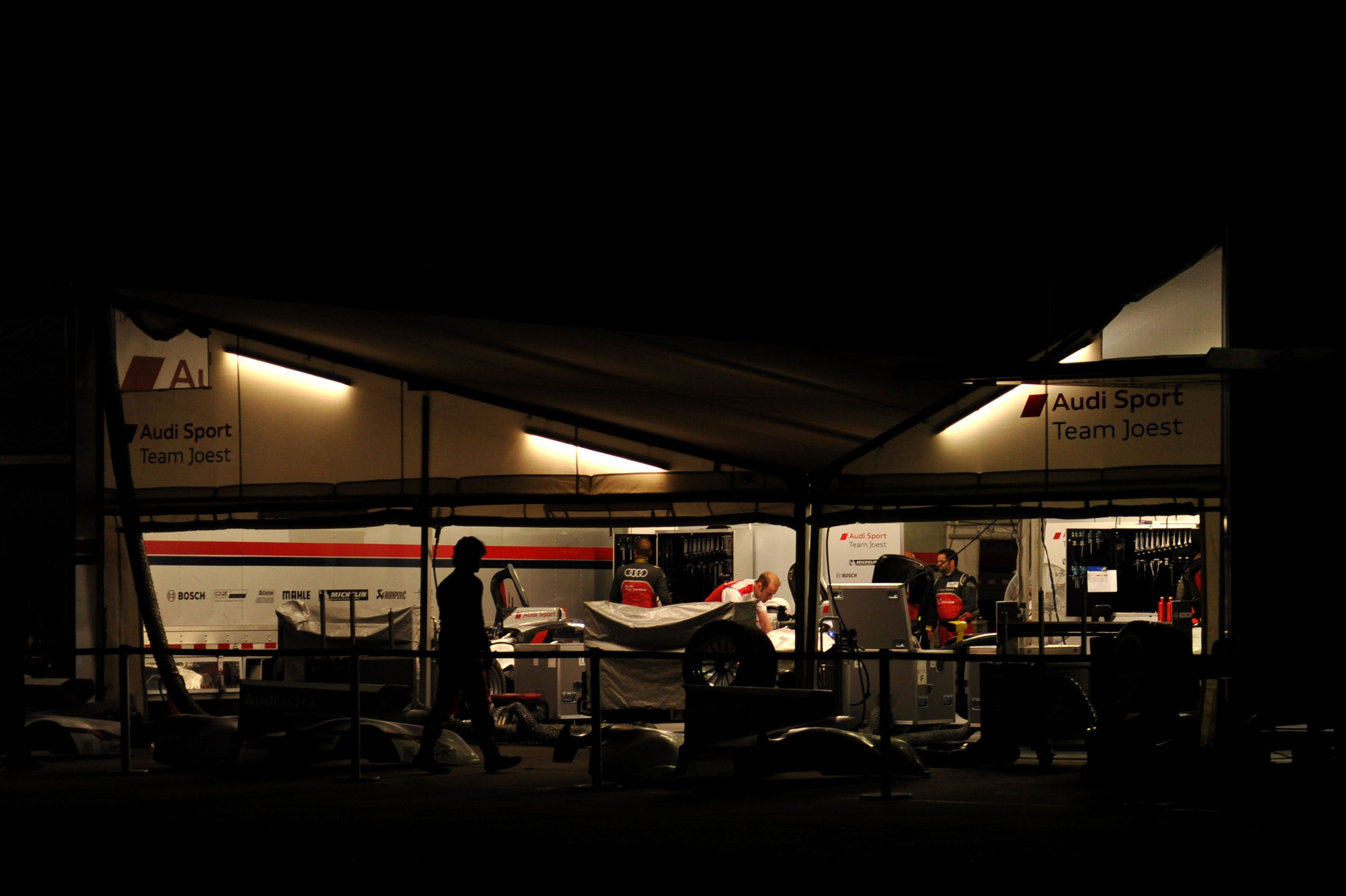 The Audi Sport Team Joest 'garage' tent at the 2012 12 Hours of Sebring, just before dawn on the day of the race.